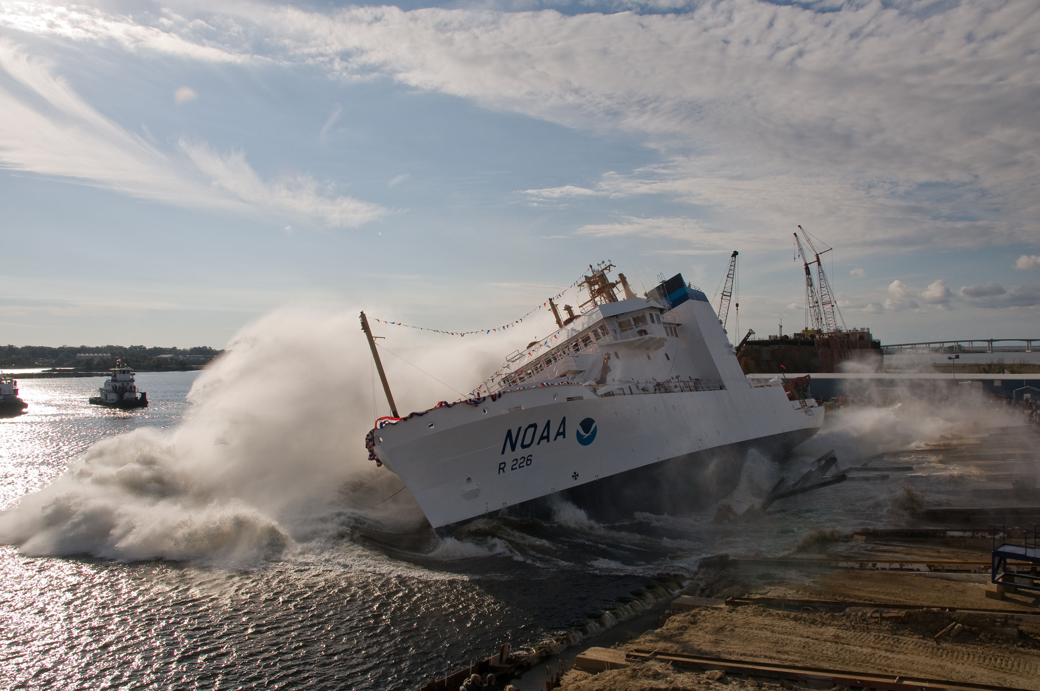 VT Halter Marine launches the National Oceanic and Atmospheric Administration fisheries nd oceanographic research ship NOAAS Pisces (R 226) at Moss Point, Mississippi.